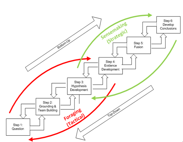 The Structured Geospatial Analytic Method (SGAM). A summary of how an analyst finds and creates new information. The data flow shows the transformation of raw information to reportable results.